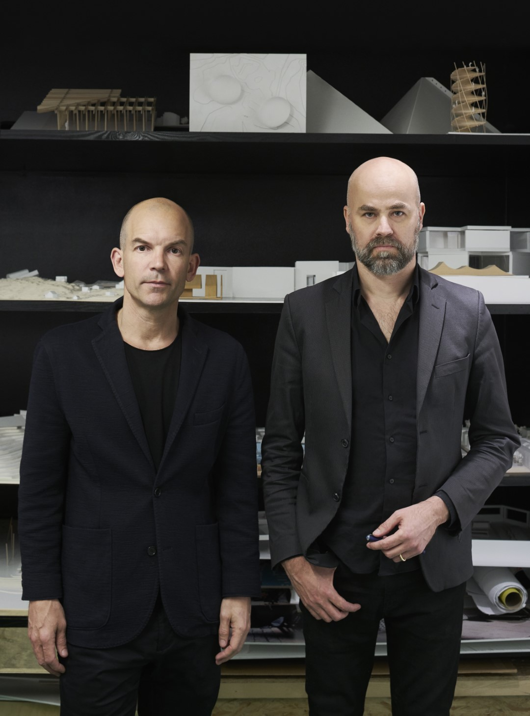 Bolle Tham and Martin Videgård, porträtt